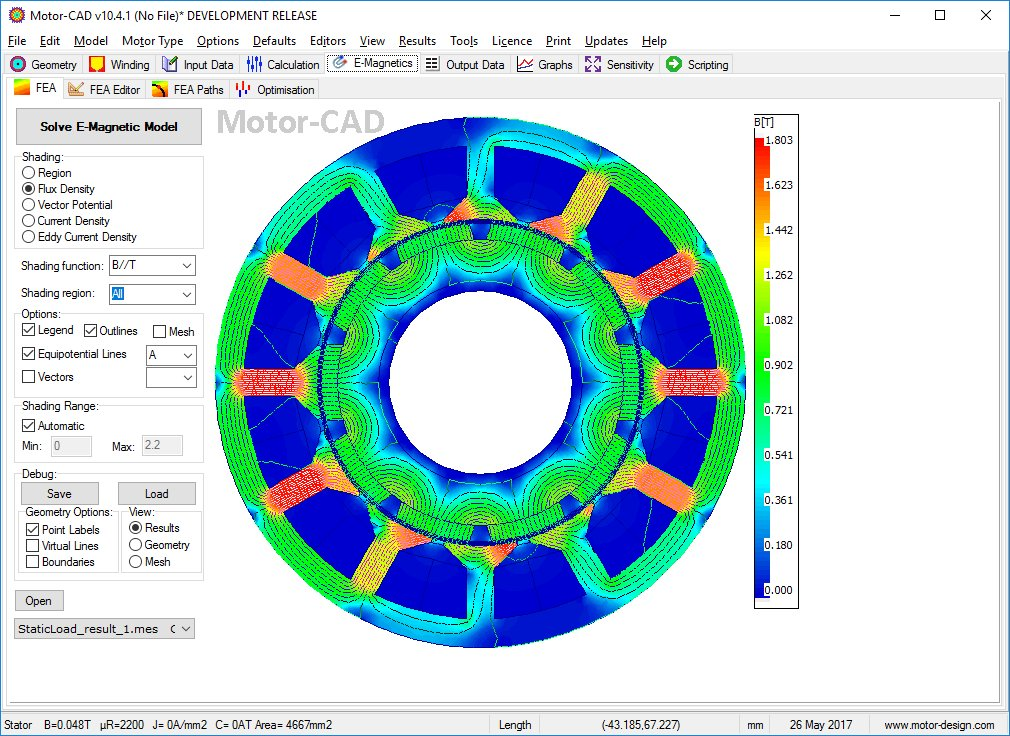 Motor-CAD EMag screenshot